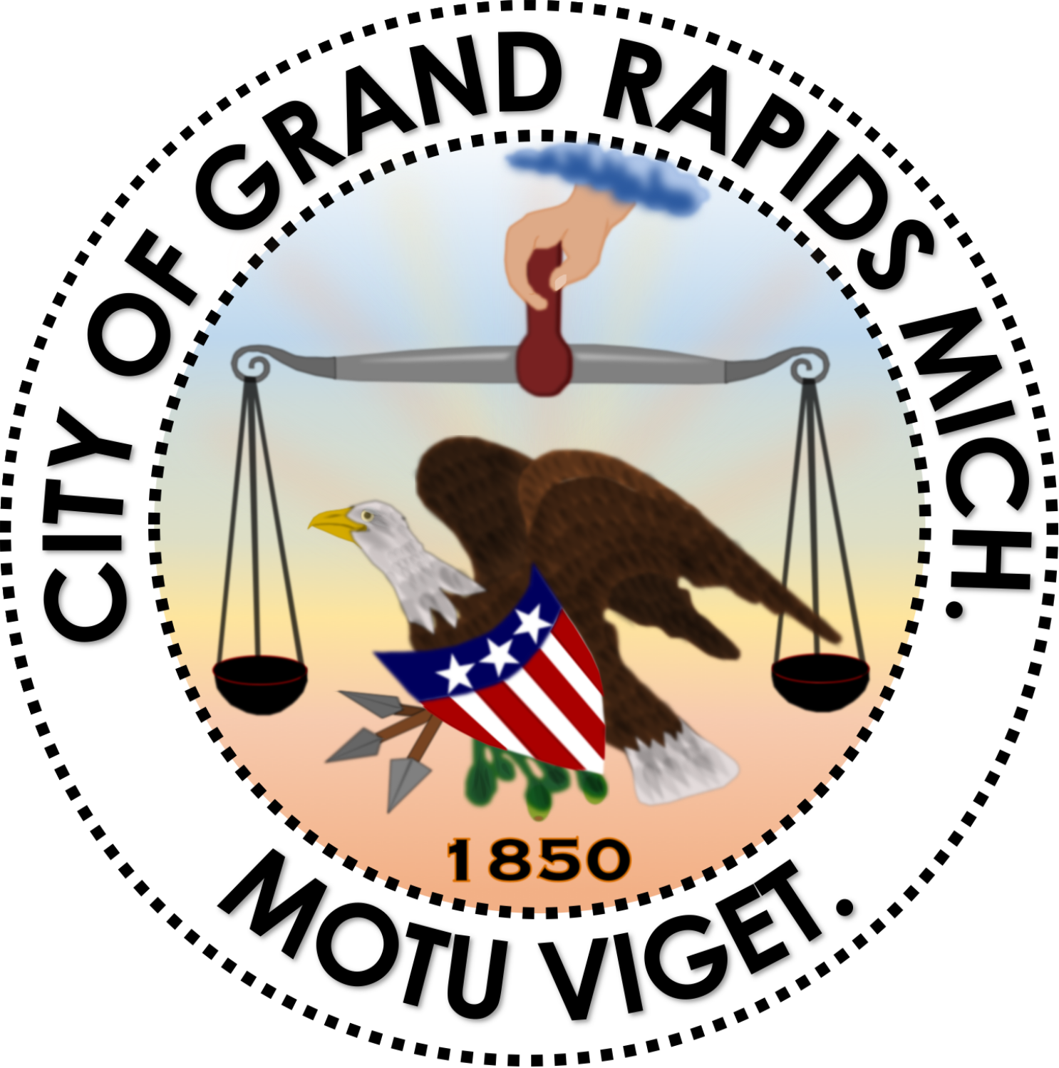 Seal of Grand Rapids, Michigan